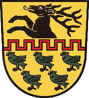 Coat of arms of Buhla